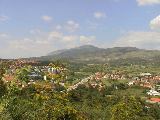 View on Drniš, Croatia.